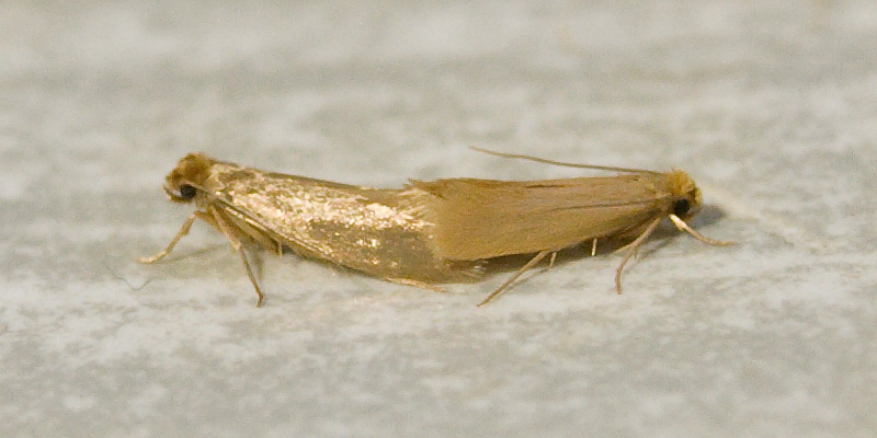 Insect sex—probably Tineola bisselliella (Clothes Moth)